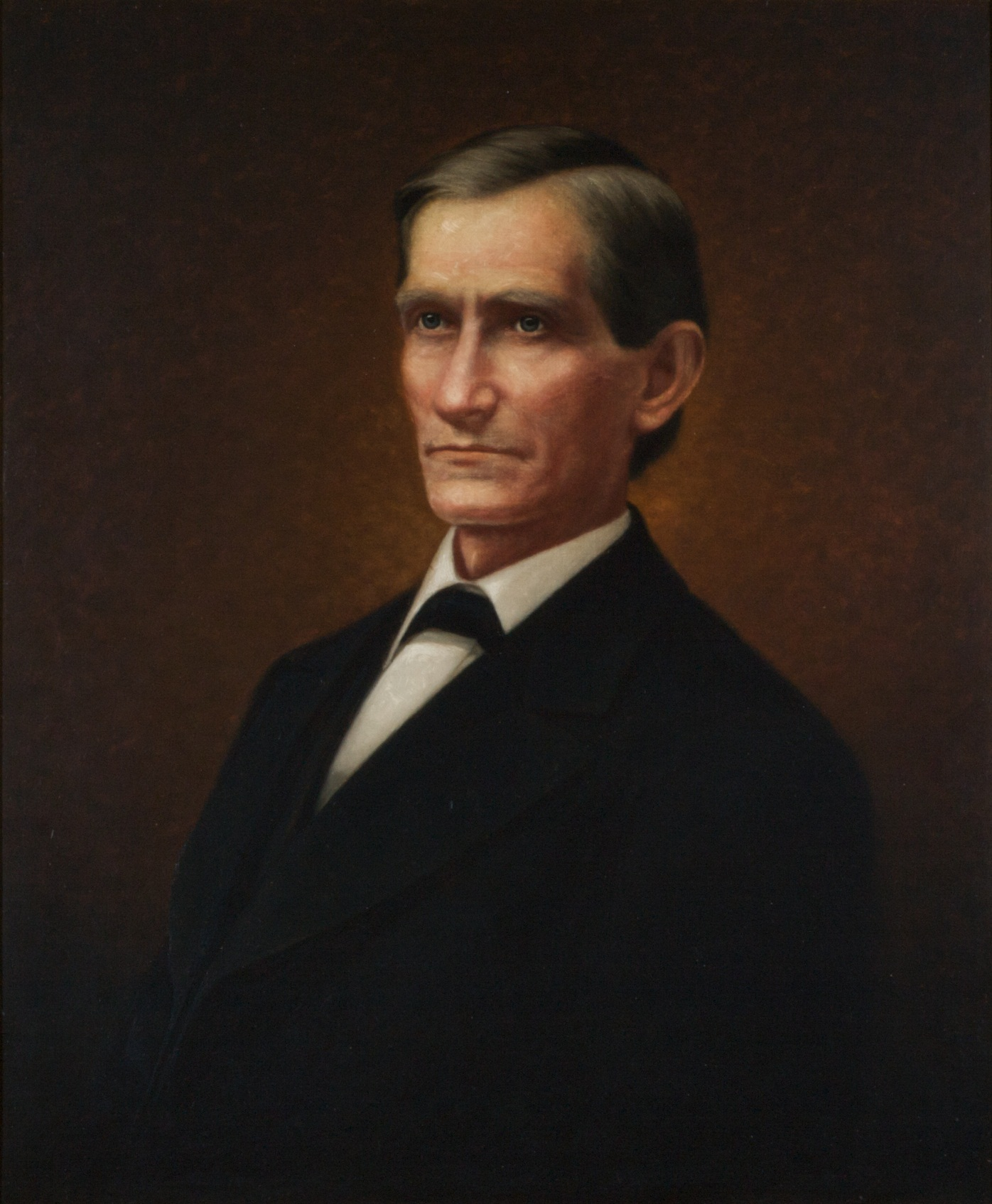 Oil on canvas portrait of Judge Edward Calohill Burks